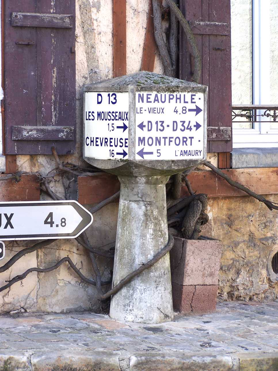 Old road sign in Le Tremblay-sur-Mauldre (Yvelines, France)